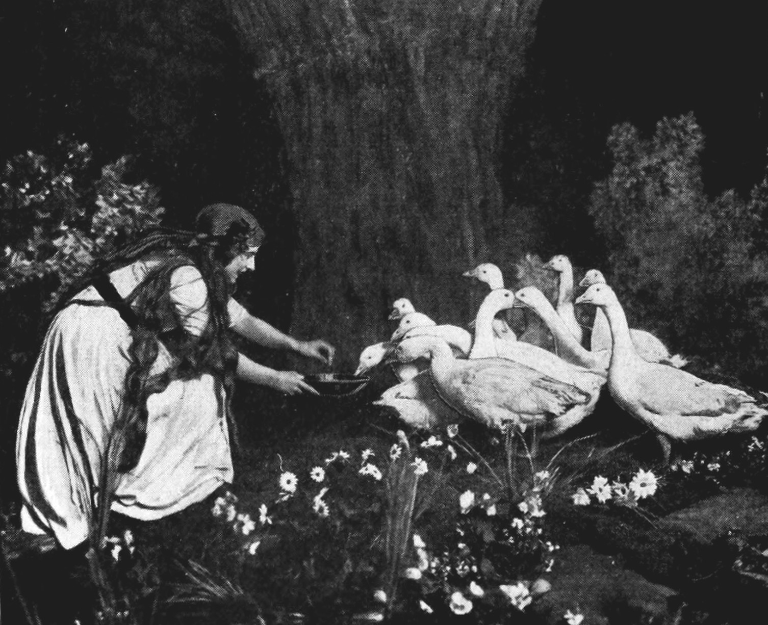 Humperdinck - Königskinder - The goose girl feeding her flock (Geraldine Farrar) Title: The Victrola book of the opera : stories of one hundred and twenty operas with seven-hundred illustrations and descriptions of twelve-hundred Victor opera records Year: 1917 (1910s) Authors: Victor Talking Machine Company Rous, Samuel Holland Subjects: Operas Publisher: Camden, N.J. : Victor Talking Machine Co. Text Appearing Before Image: on Symphony Orchestra. The opera is allegorical in character, illustrating the stupidity of mankind in failing to recognize true loyalty when it appears to them in disguise. It is a human little story, full of pathos, humor and tenderness, and no one could have given it the gentle, sympathetic touch better than Humperdinck. The story tells of a Goose Girl who lives with an old Witch in the hills above the town of Hellabrunn. A poorly-dressed youth comes out of the woods and tells the Goose Girl of his wanderings. He is in reality the King's Son, but the girl does not know this. The boy falls in love with the beautiful maiden, and asks her to go maying with him through the summerland. The girl longs to run off with him, but finds her feet glued to the ground. The King's Son, believing her afraid to go, tells her she is unworthy to be a kings mate, and leaves her, vowing she shall never see him again till a star has fallen into a lily which is blooming nearby. The Witch returns and scolds the Goose Girl for wast- Text Appearing After Image: the goose girl feeding her flock (Geraldine Farrar) 223 VICTROLA BOOK OF THE OPERA — THE KINGS CHILDREN